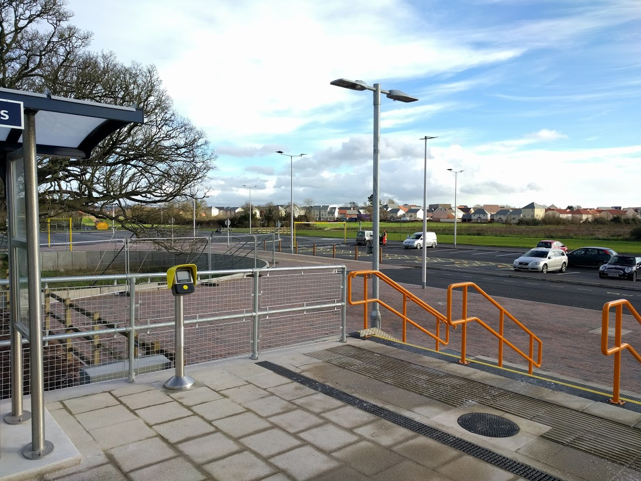 A shot of the new town of Cranbrook, Devon, UK from the steps of the train station.